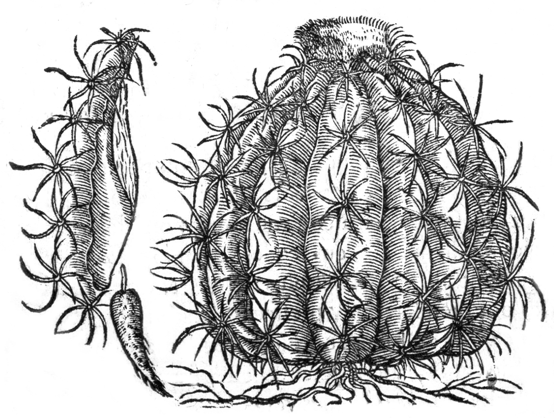 Melocactus